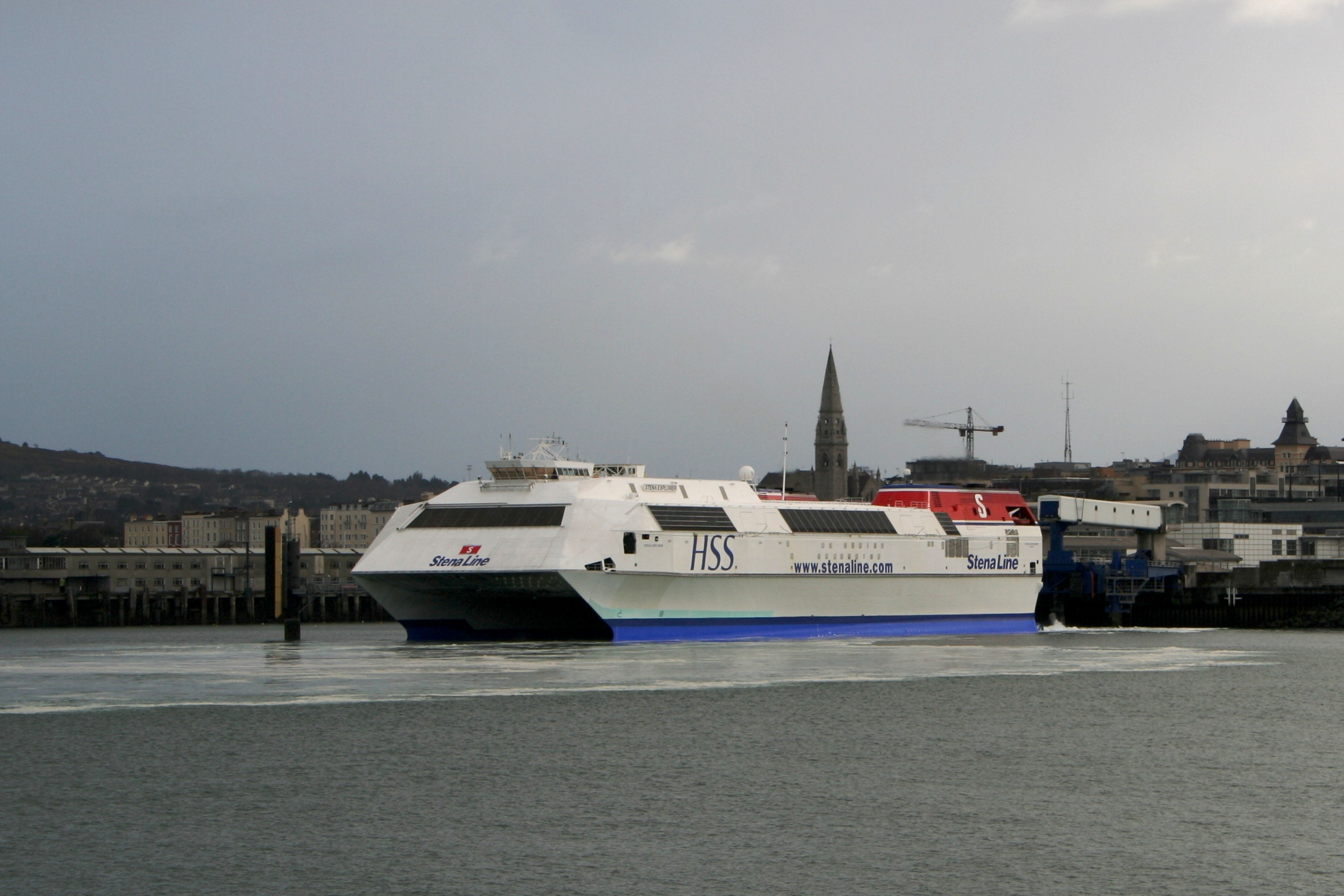 "Stena Explorer" of the "Stena Line" at Dun Loaghaire, Dublin, Ireland.